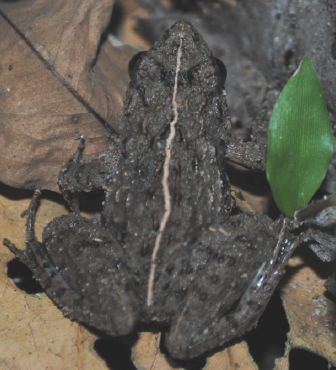 Fejervarya nepalensis (Zakerana nepalensis), Samdrup Jongkhar, Bhutan. Photo by Karma Wangdi, published in Wangyal, J. T. 2013. New records of reptiles and amphibians from Bhutan. Journal of Threatened Taxa 5:4774–4783.